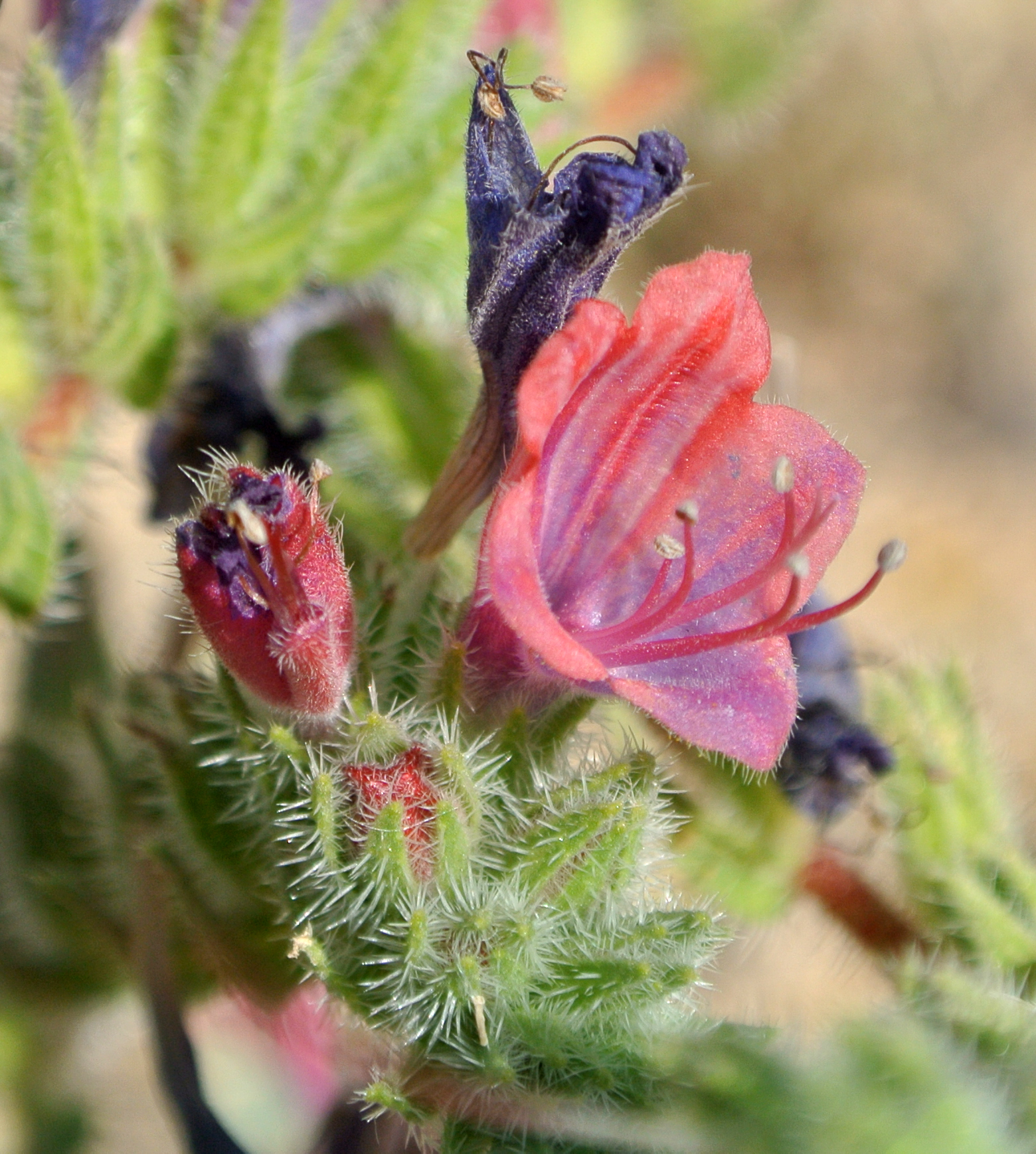 Echium judaeum near Har Arif, Negev, southern Israel, in spring 2014.